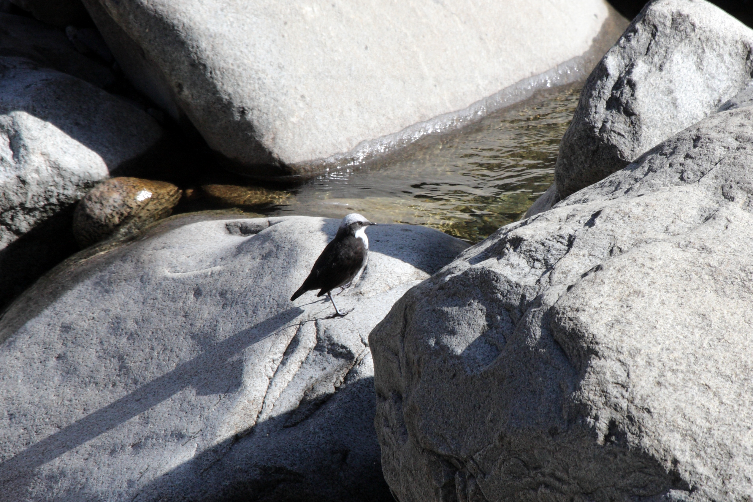 White-capped Dipper Cinclus leucocephalus leucocephalus in Peru